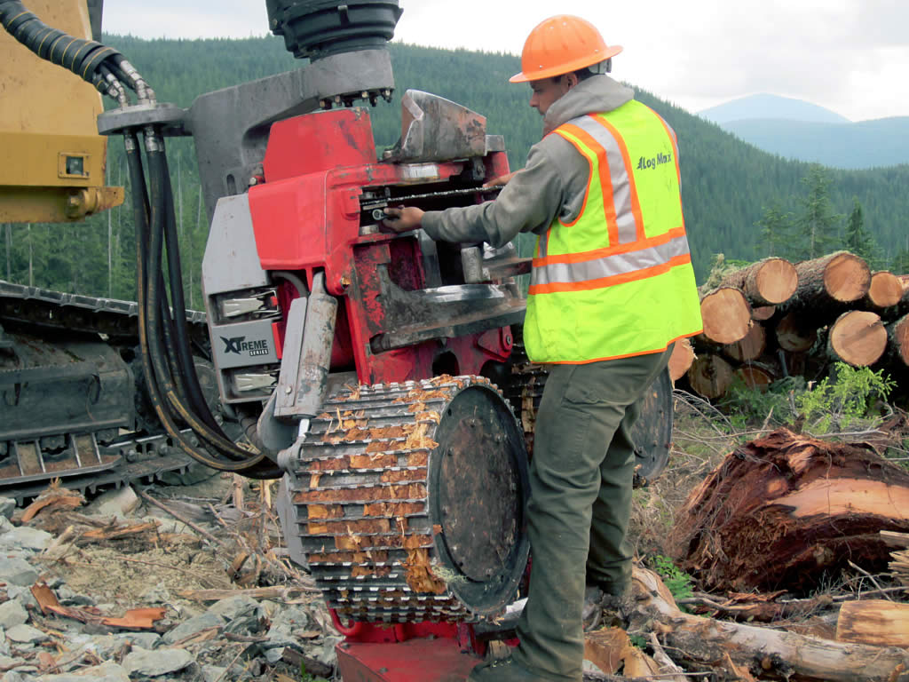 adjusting a log processor, Copper Canyon, Vancouver Island, BC